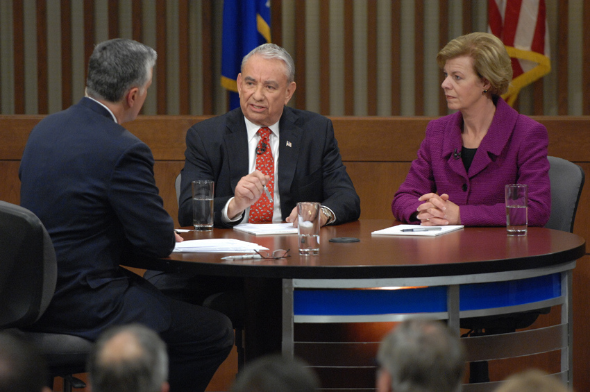 Thompson, Baldwin and moderator Mike Gousha in debate